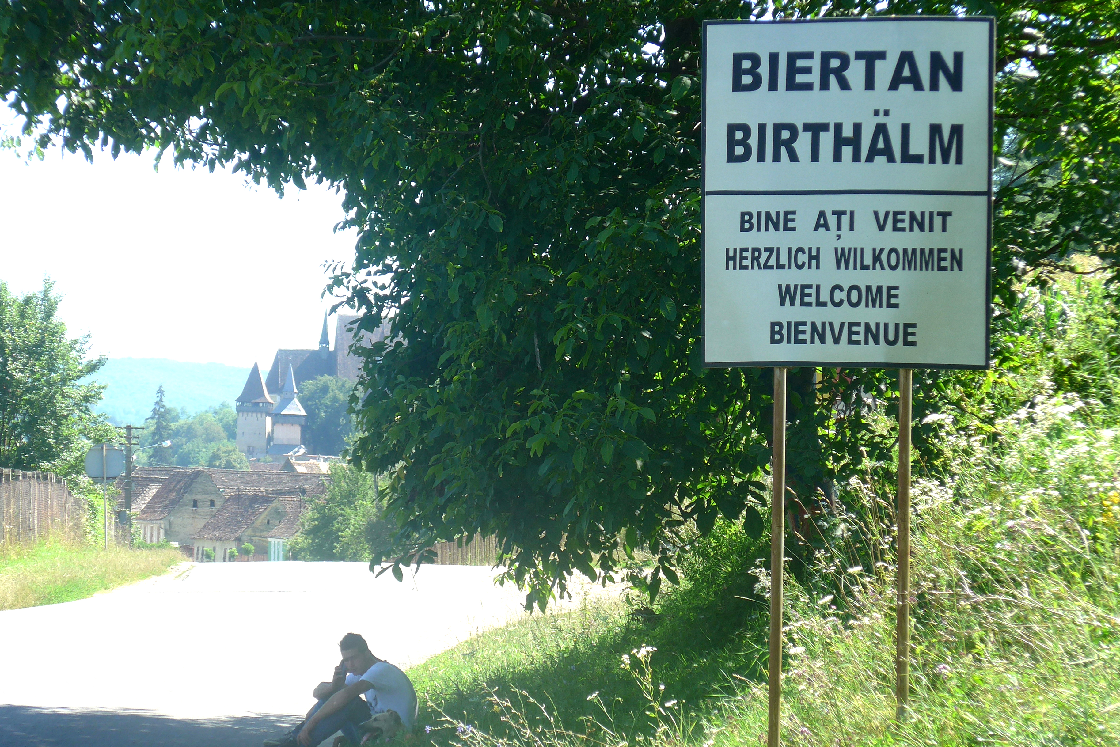 Bilingual town sign of Birtan/Birthälm in Romania